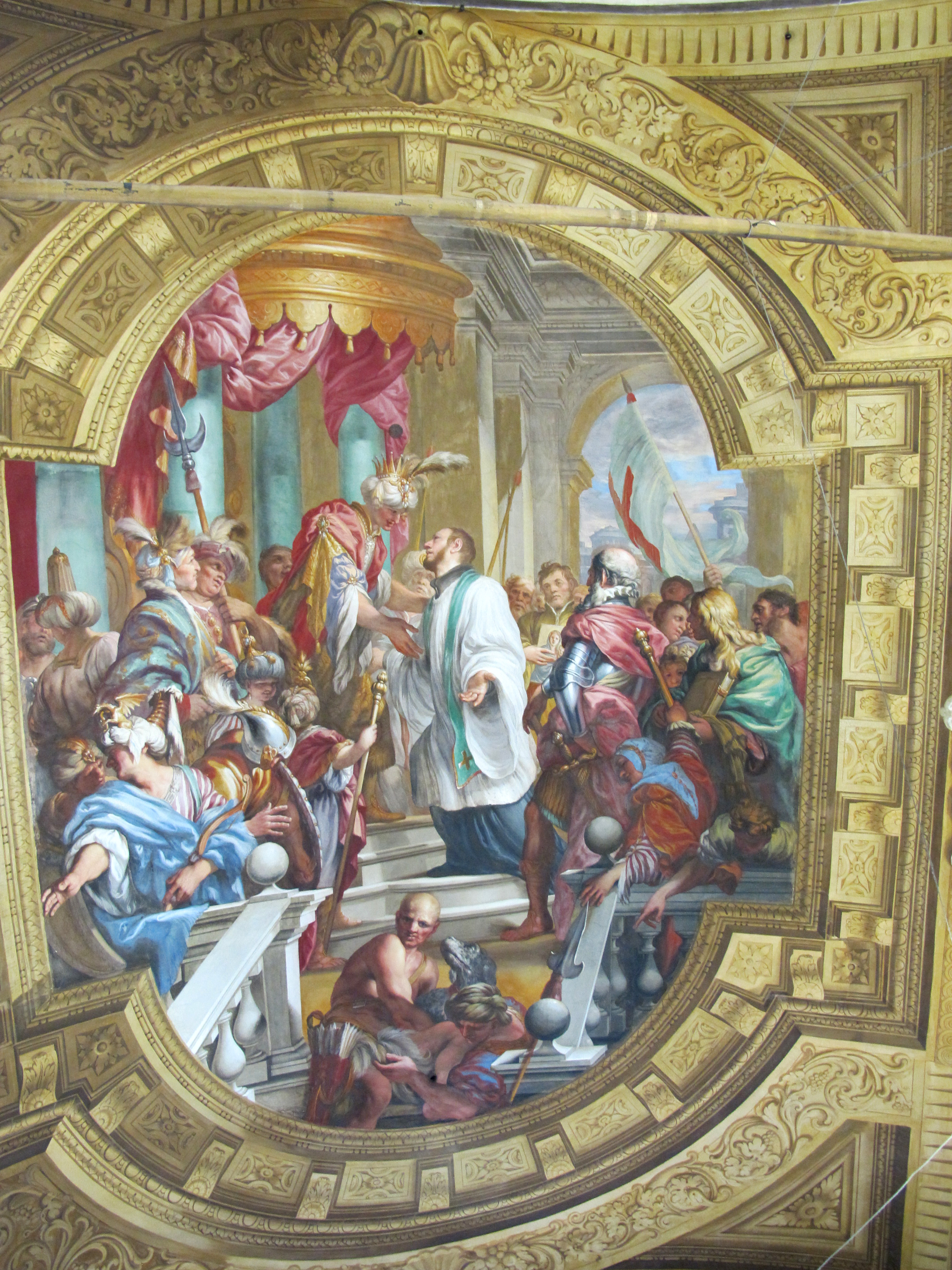 Library of the Genoa University